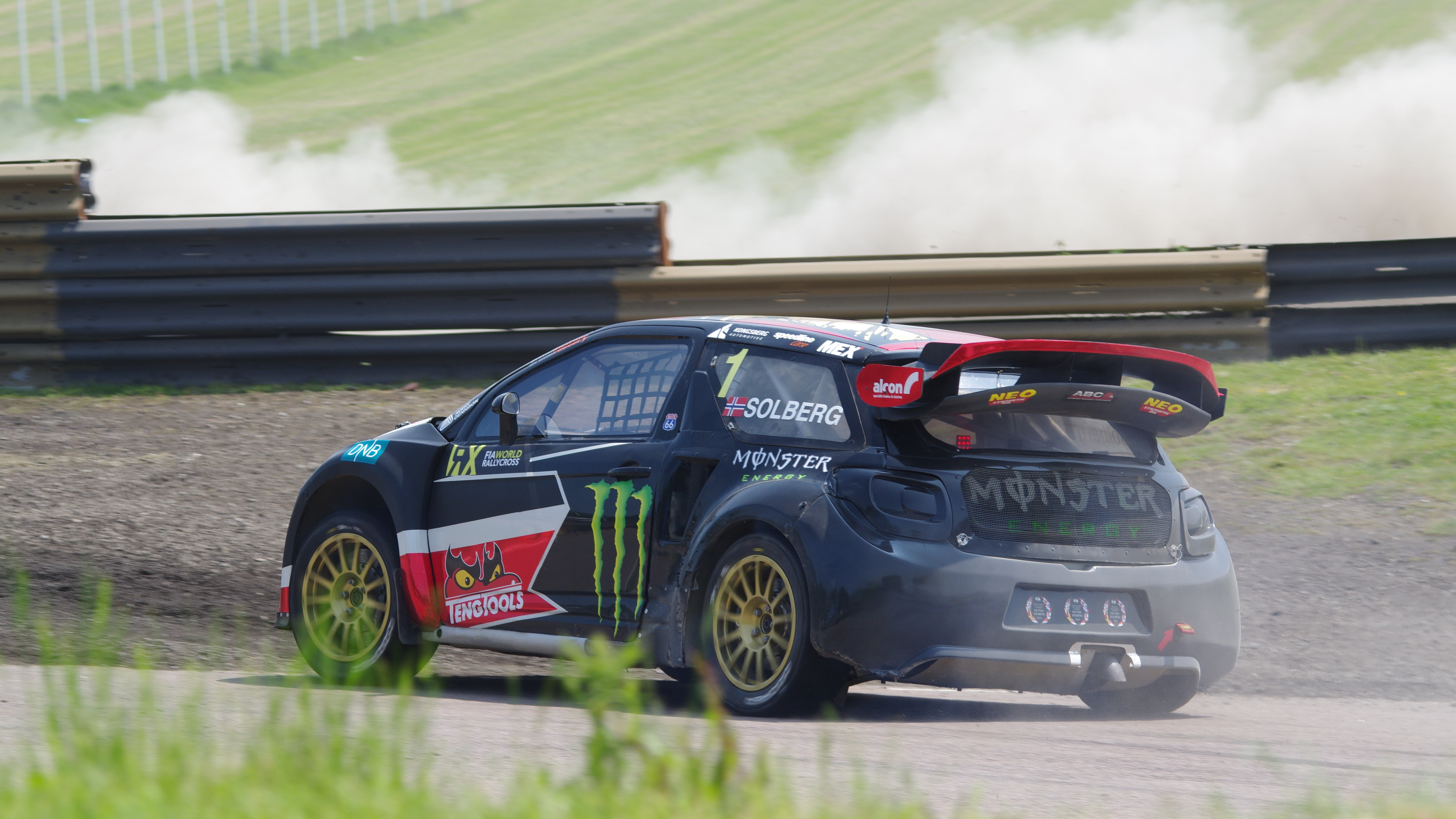 Saturday 28th May. Petter Solberg on top form at Lydden Hill.